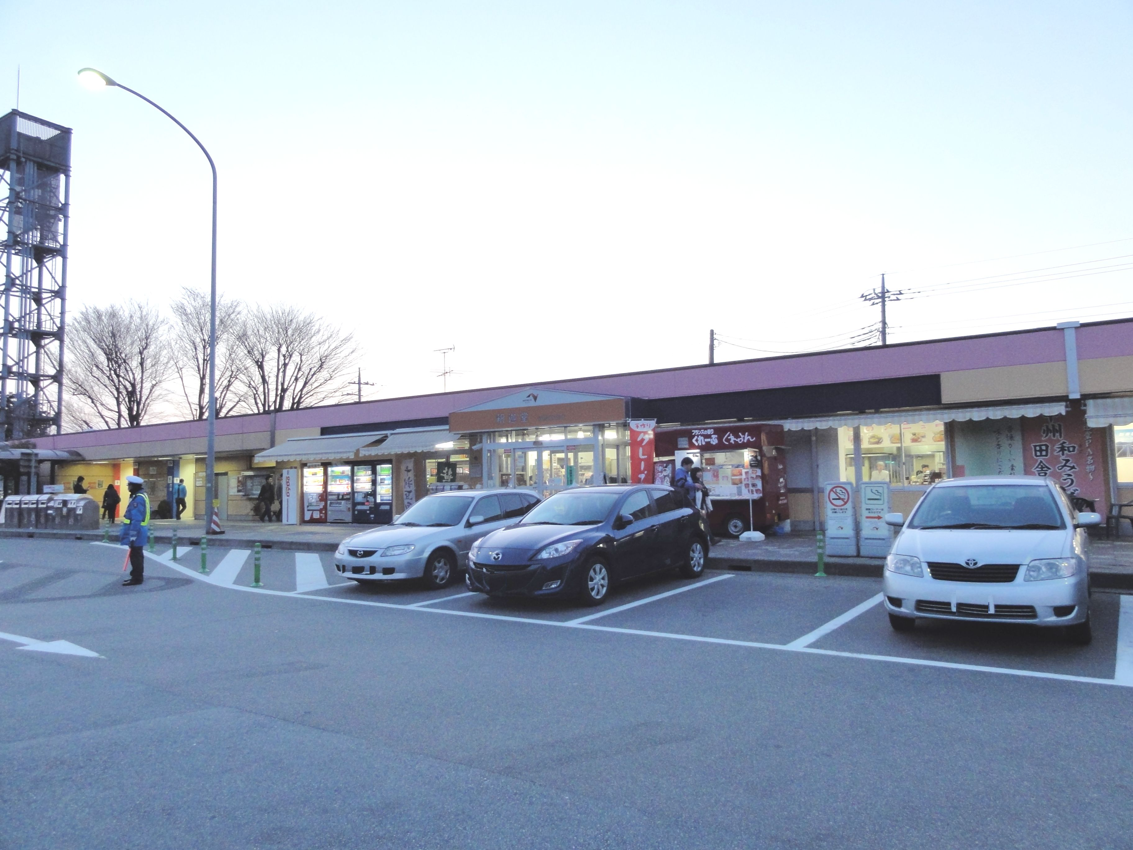 Shakado Parking Area on the Chuo Expressway inbound line (for Tokyo)